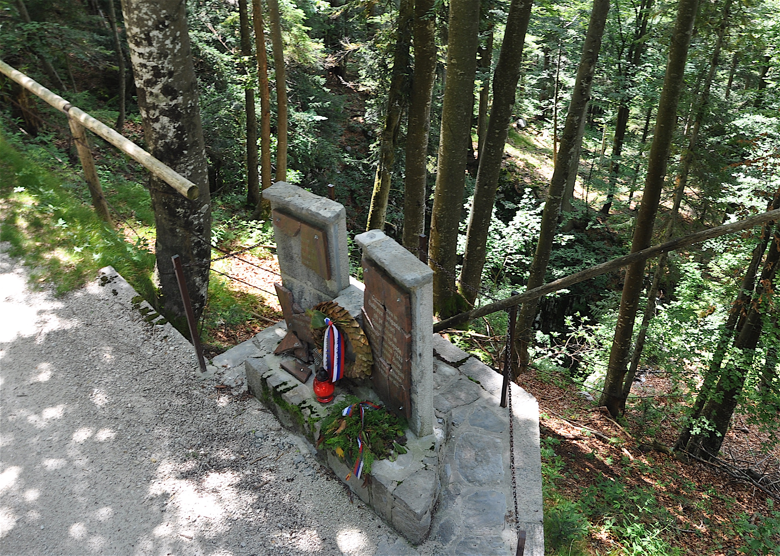 Partisan battle (1943) memorial near Jelenov žleb, Slovenia